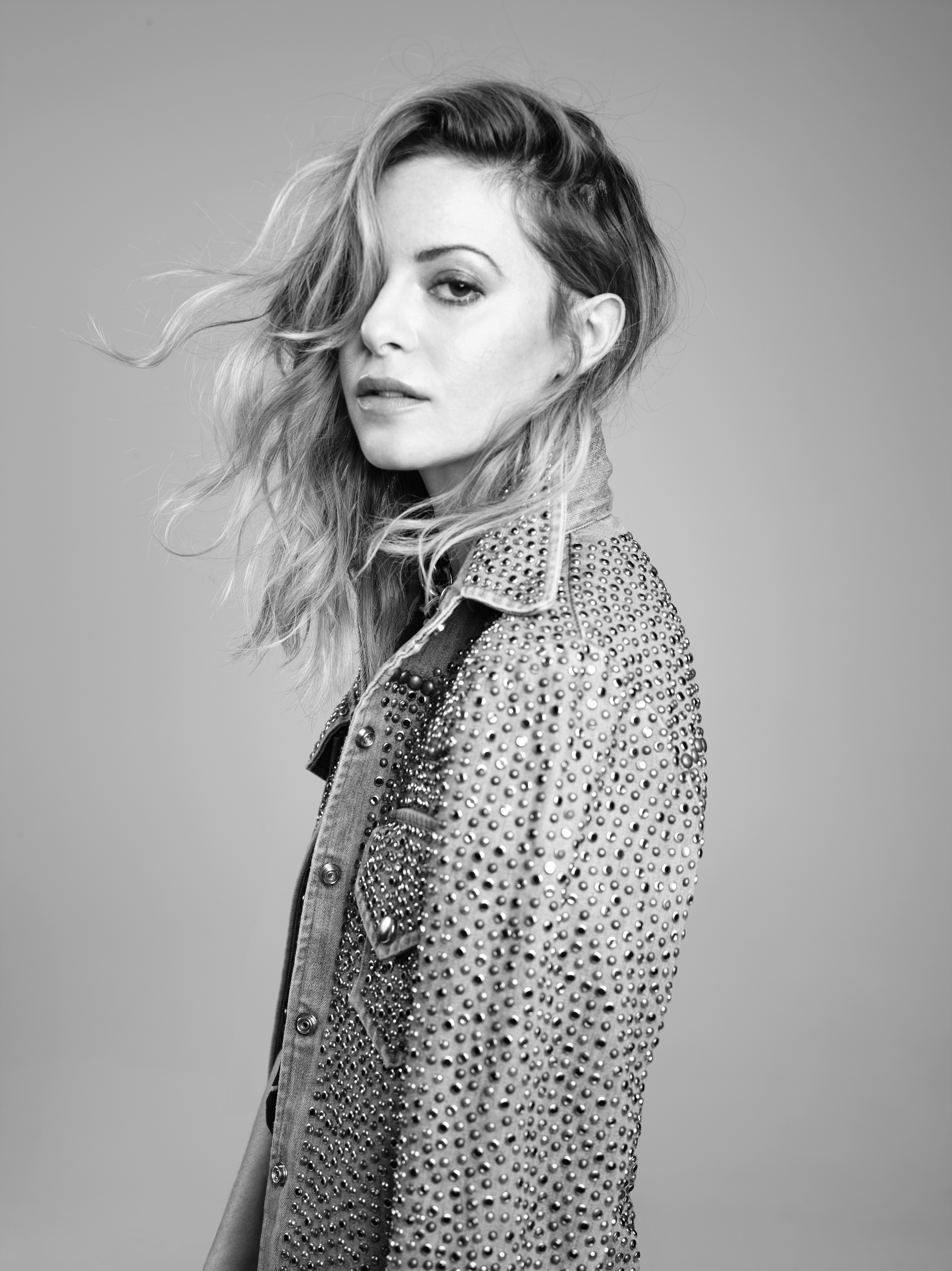 Sophia Amoruso